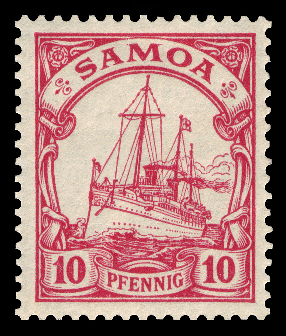 stamp series for German Colonies Ausgabepreis: 10 Pfennig First Day of Issue / Erstausgabetag: 10. Dezember 1900 Michel-Katalog-Nr: 9 (Deutsche Kolonie Samoa)